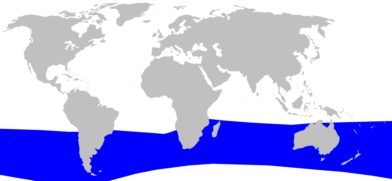 Distribution of Mesoplodon hectori